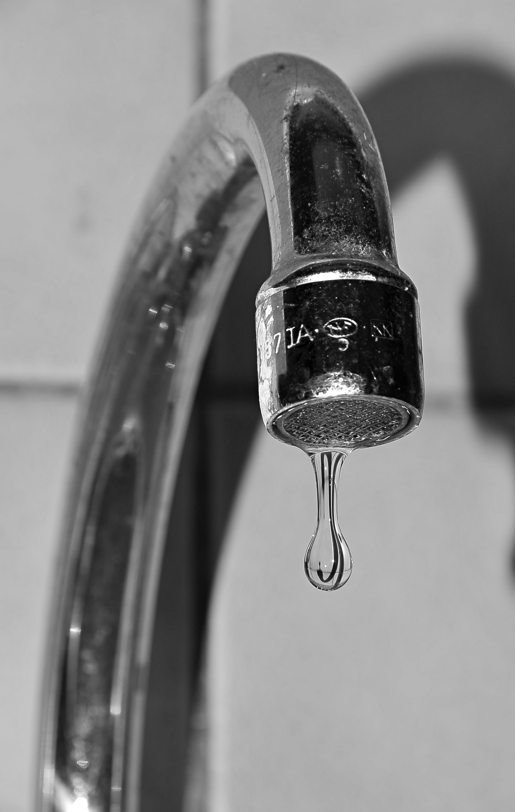 Dripping faucet